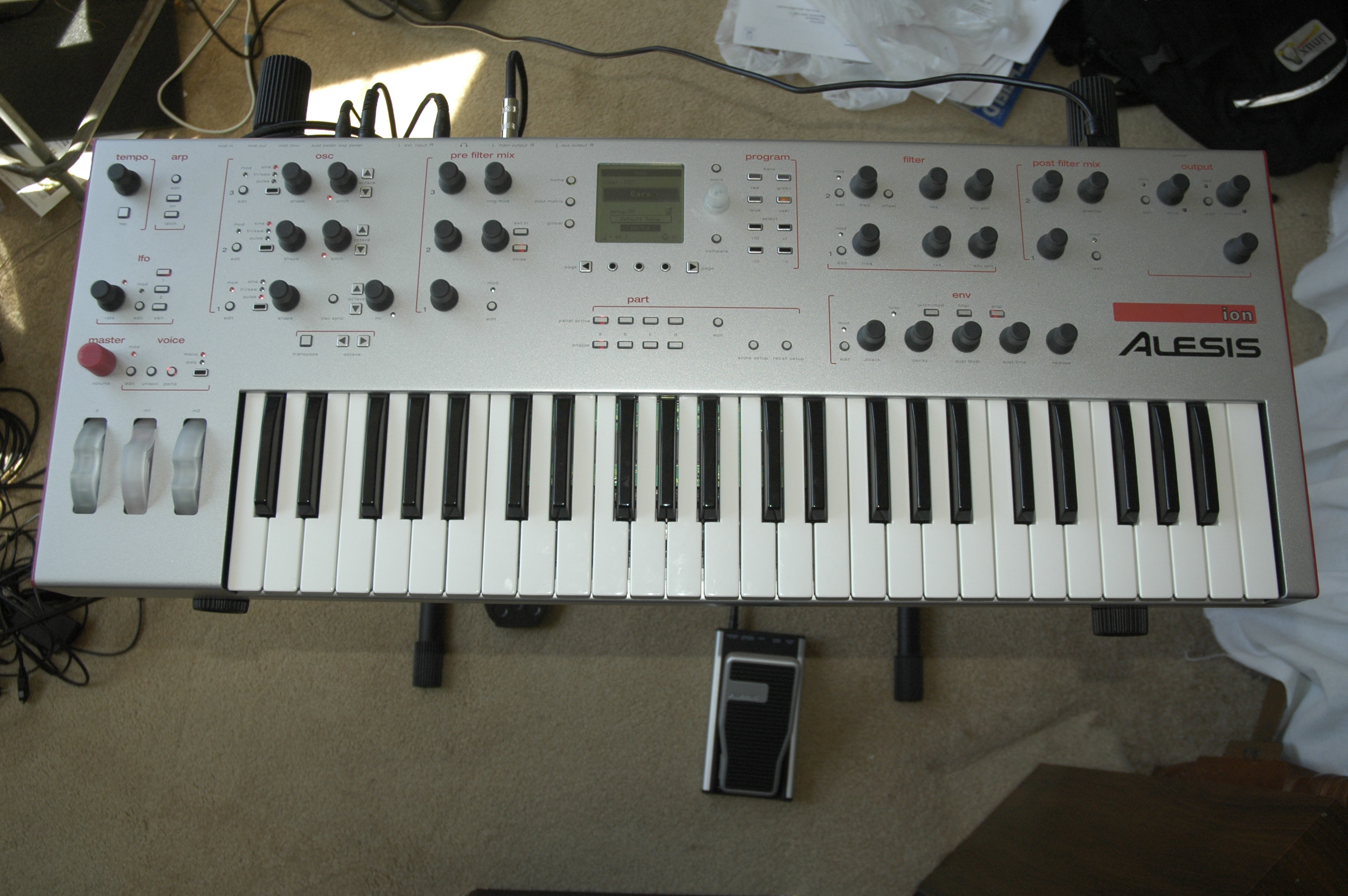 My Ion. Taken by me.